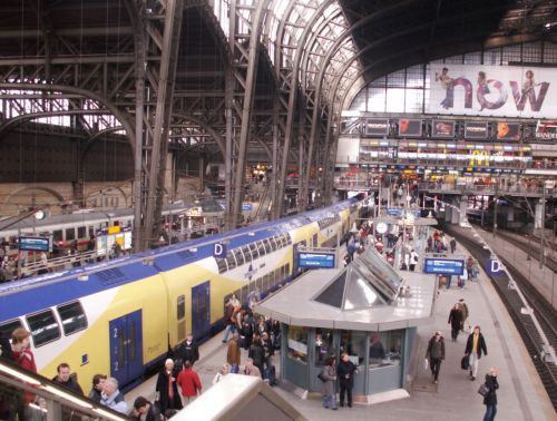 Metronom in Hamburg.